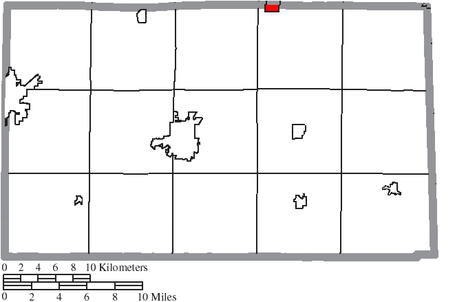 Map of the municipal and township boundaries of Seneca County, Ohio, United States, as of the 2000 census, with the location of the village of Green Springs highlighted. Township borders are shown only in unincorporated areas in order to differentiate incorporated and unincorporated areas more clearly.